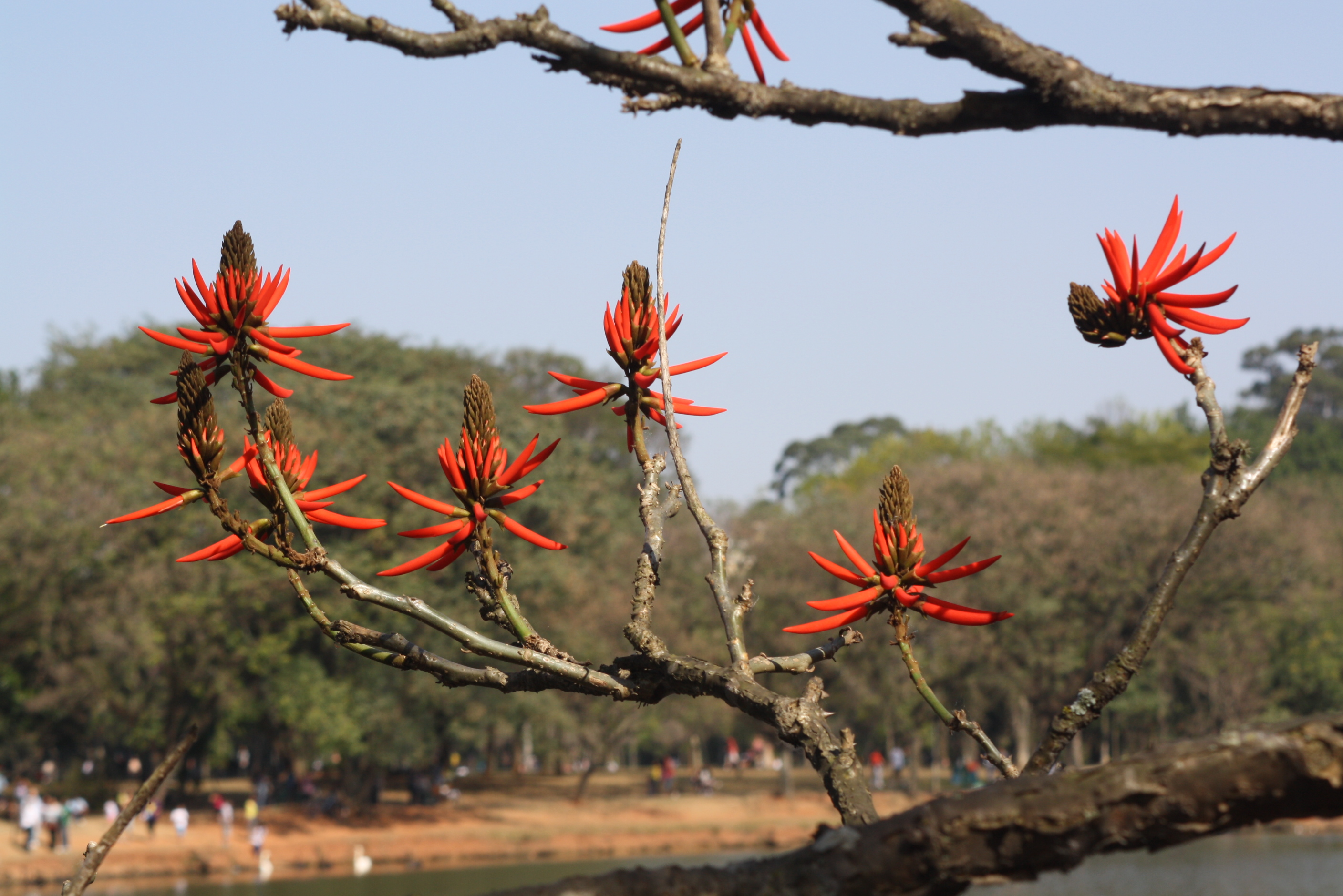 Erythrina speciosa , a species of 'coral trees'.